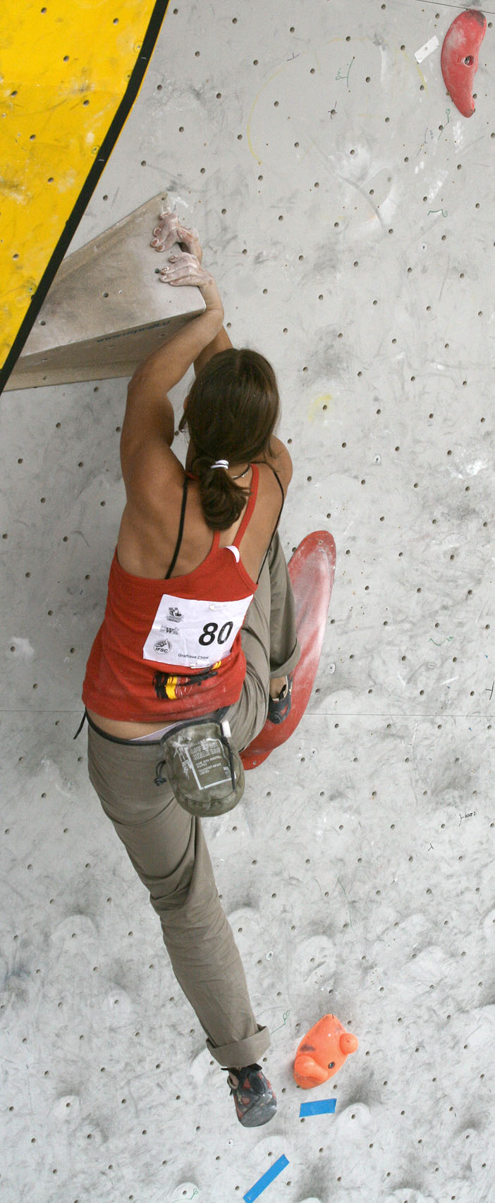 Chloé Graftiaux during the semi-finals at the IFSC Boulder Worldcup Vienna 2010.